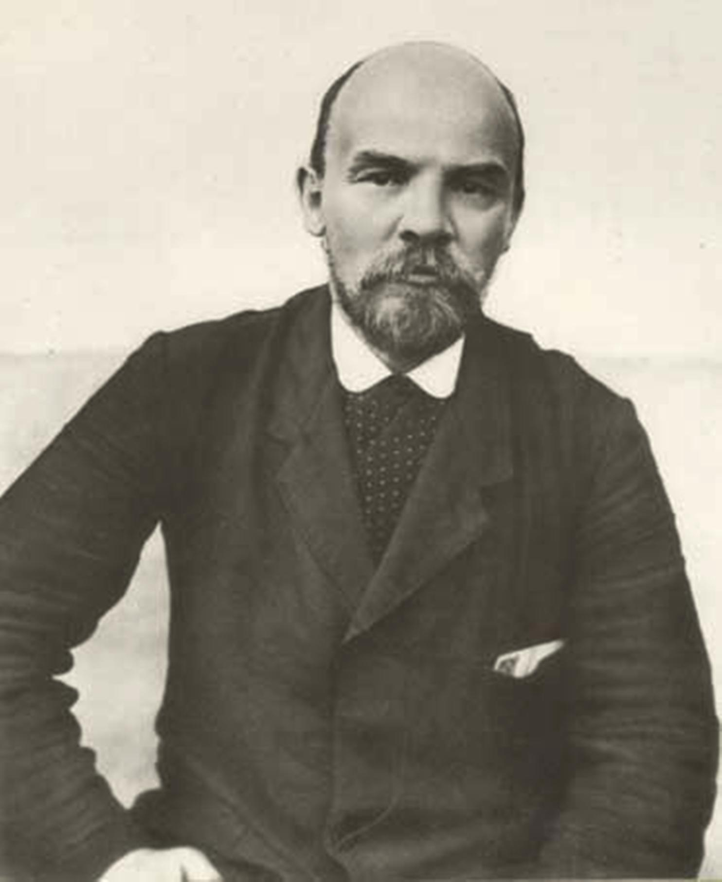 Lenin in Poronin, Poland after the start of the First World War, before leaving the country